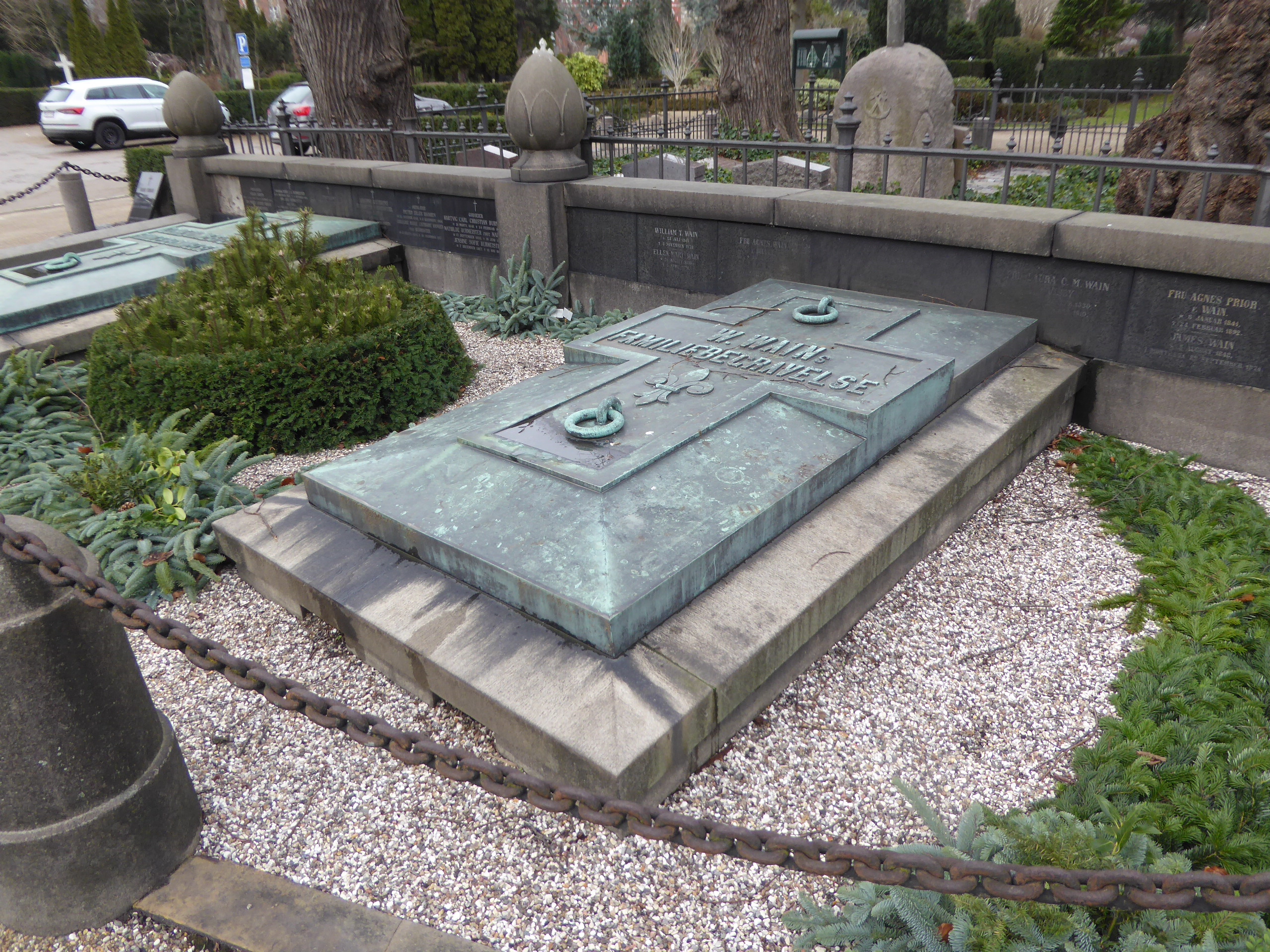 Grave of the manufacturer Hans Heinrich Baumgarten (1806-1875) at Holmens Kirkegård in Copenhagen.